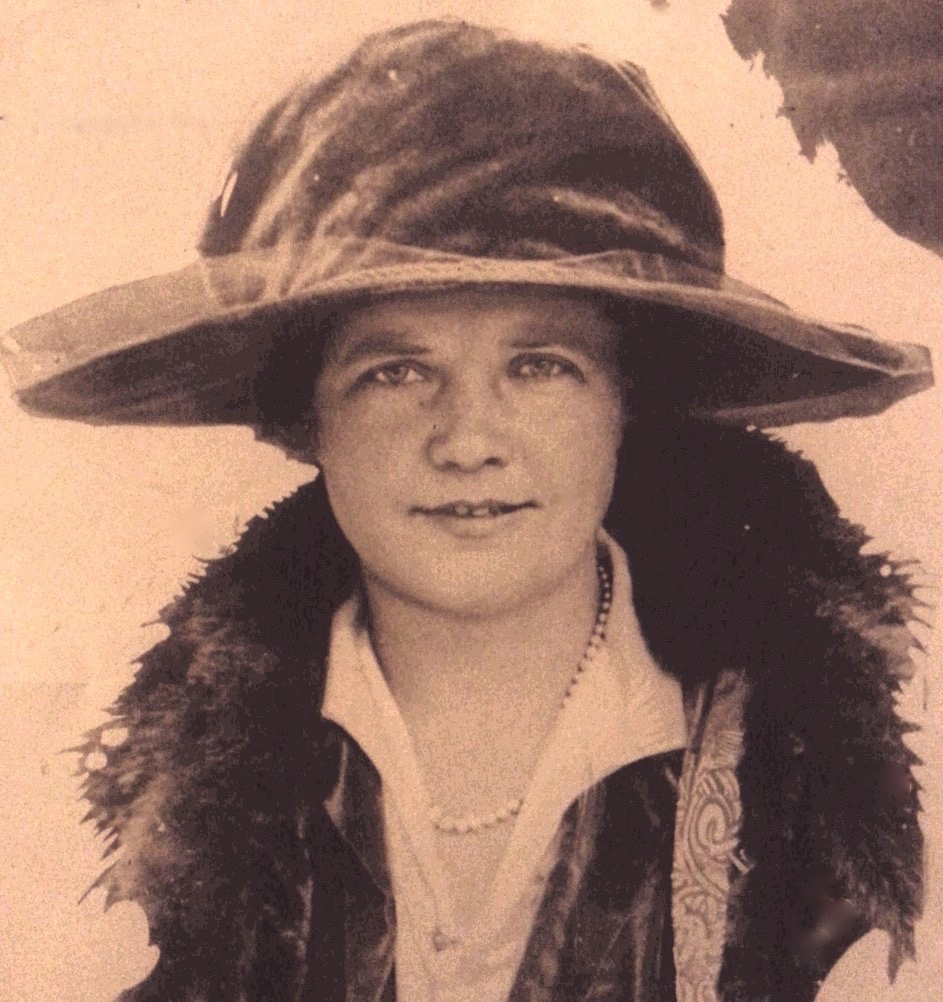 Portrait photo of Margaret Mackworth (born Haig Thomas), 2nd Viscountess Rhondda.